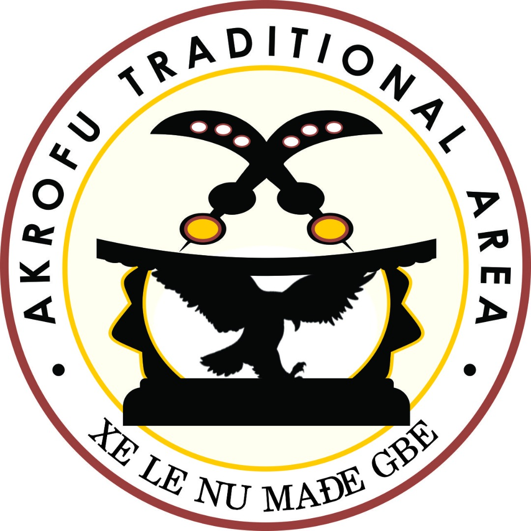 Emblem of Akrofu Traditional Area